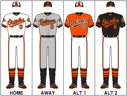 Sports uniform of the Baltimore Orioles. Trademark of MLB Properties.